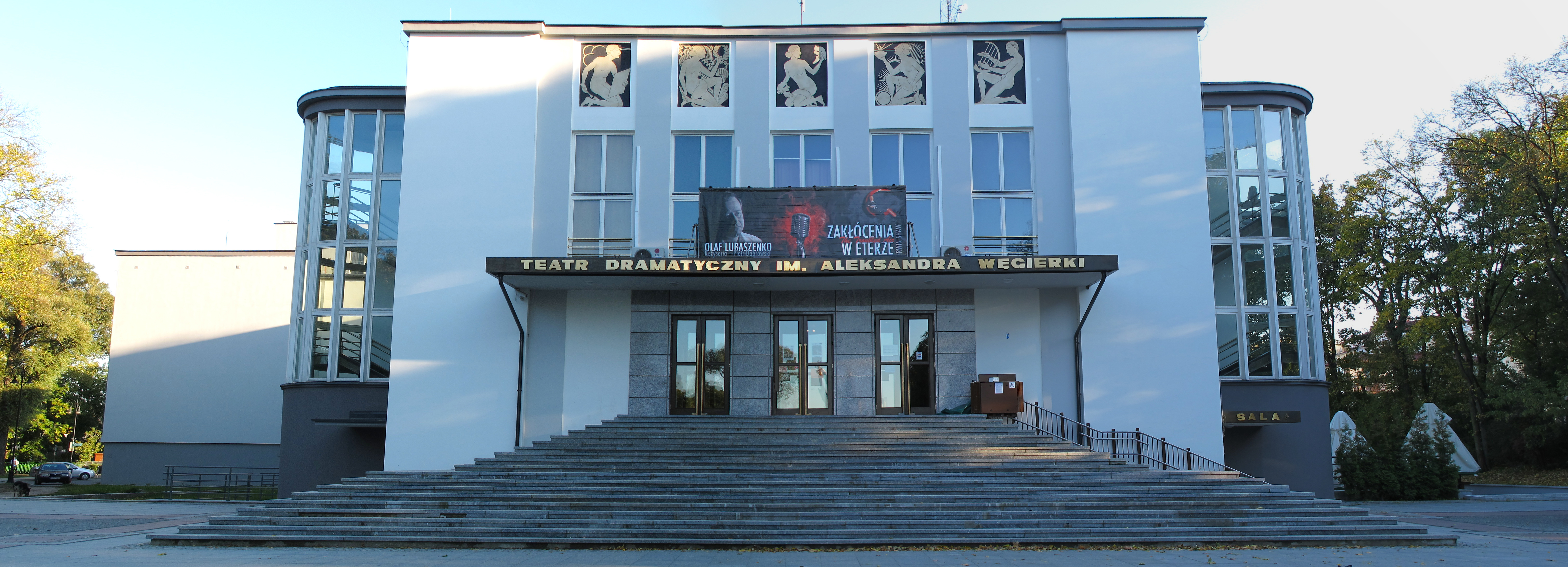 Wegierko Drama Theatre in Białystok, Elektryczna 12 street, podlaskie, Poland